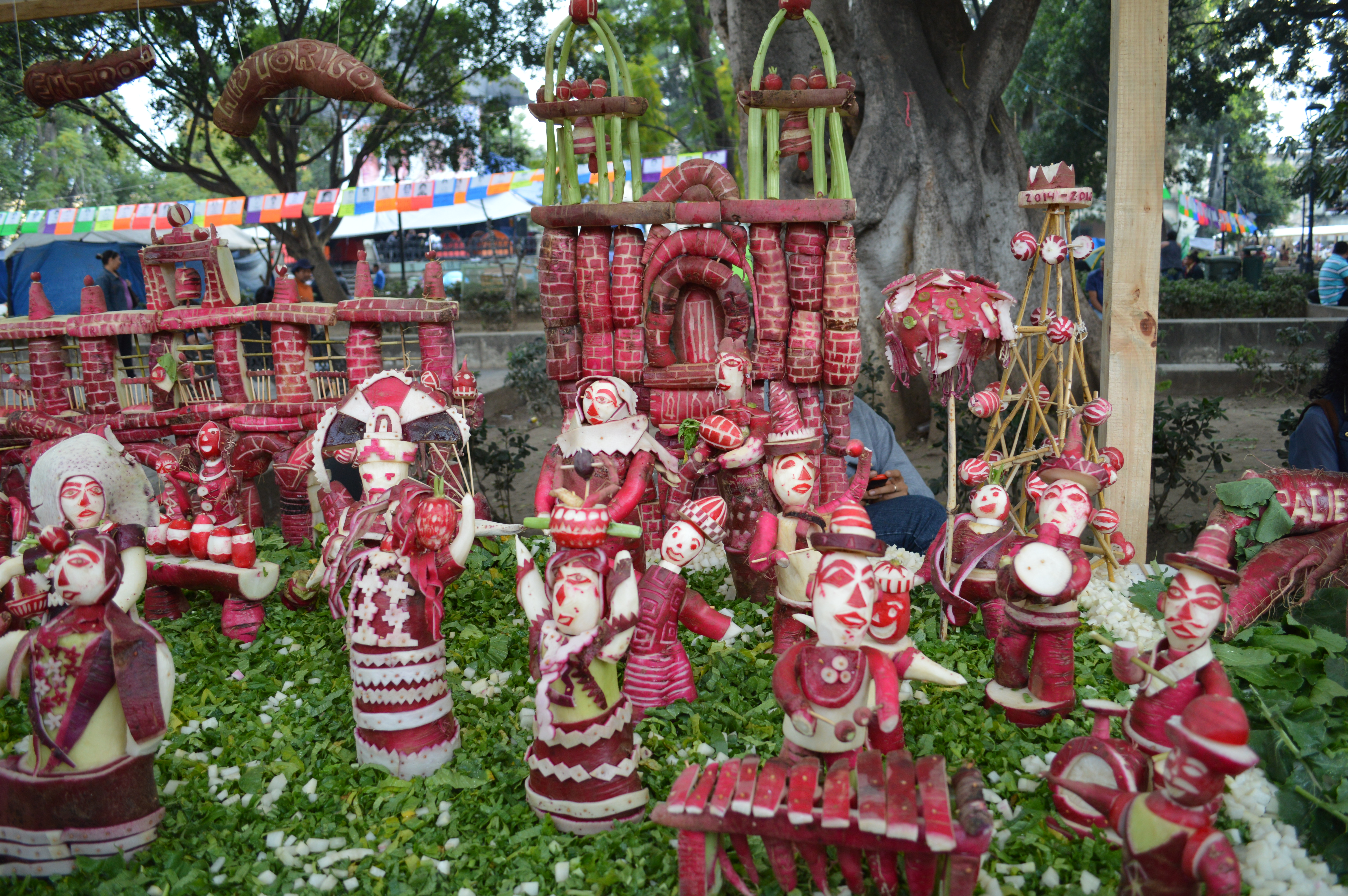 "Rescatando El Centro Histórico y sus Tradiciones" by Karoi Javier Gonzalez Rendon at the 2014 Noche de Rabanos in the city of Oaxaca, Mexico